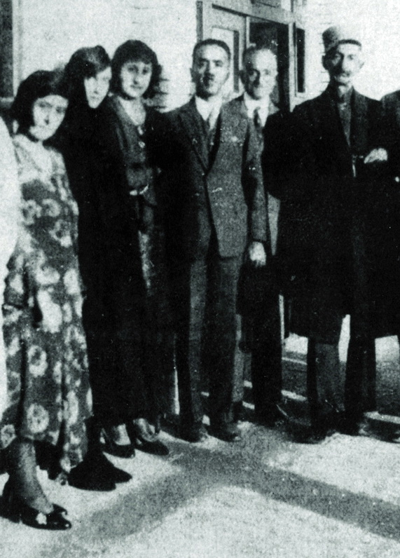 عارف قزوینی